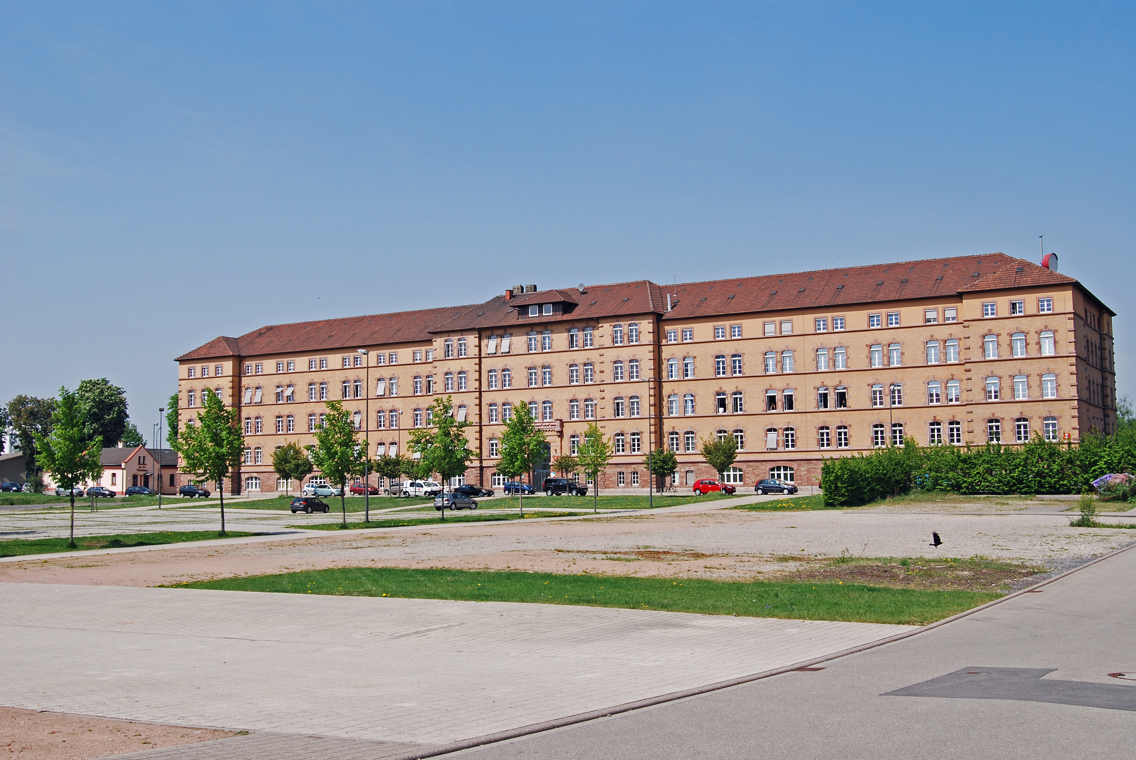 Kehl